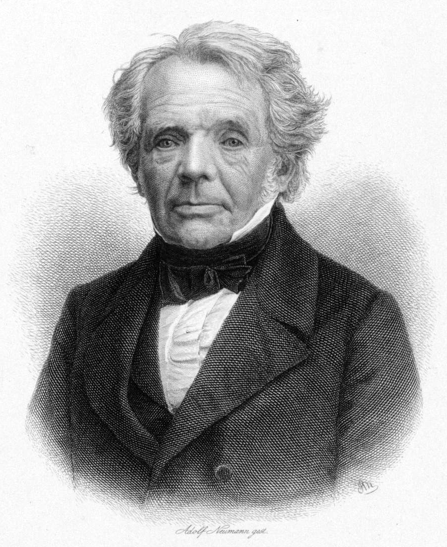 Depicted person: August Ferdinand Möbius